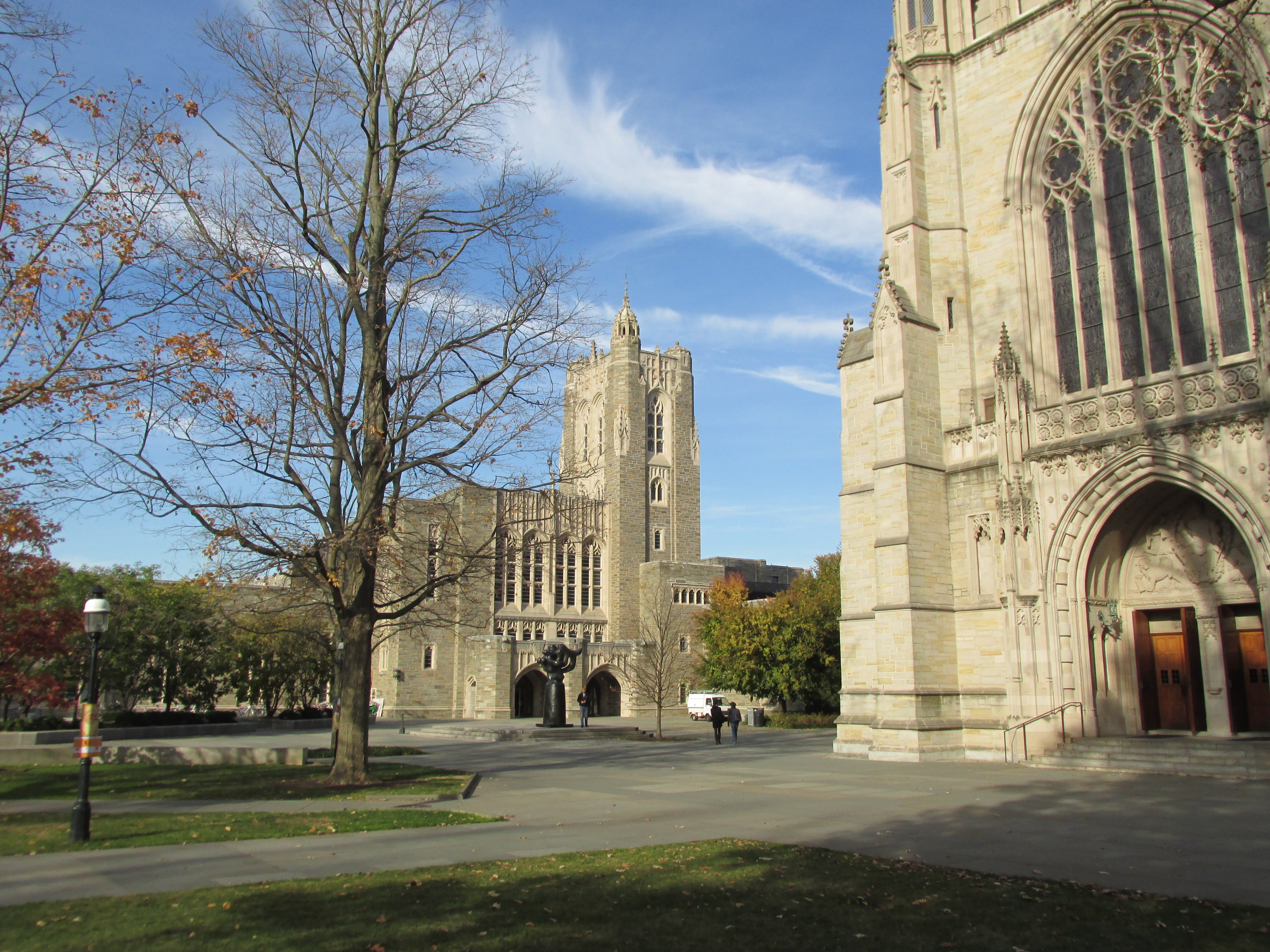 Firestone Library, Princeton University, Princeton New Jersey